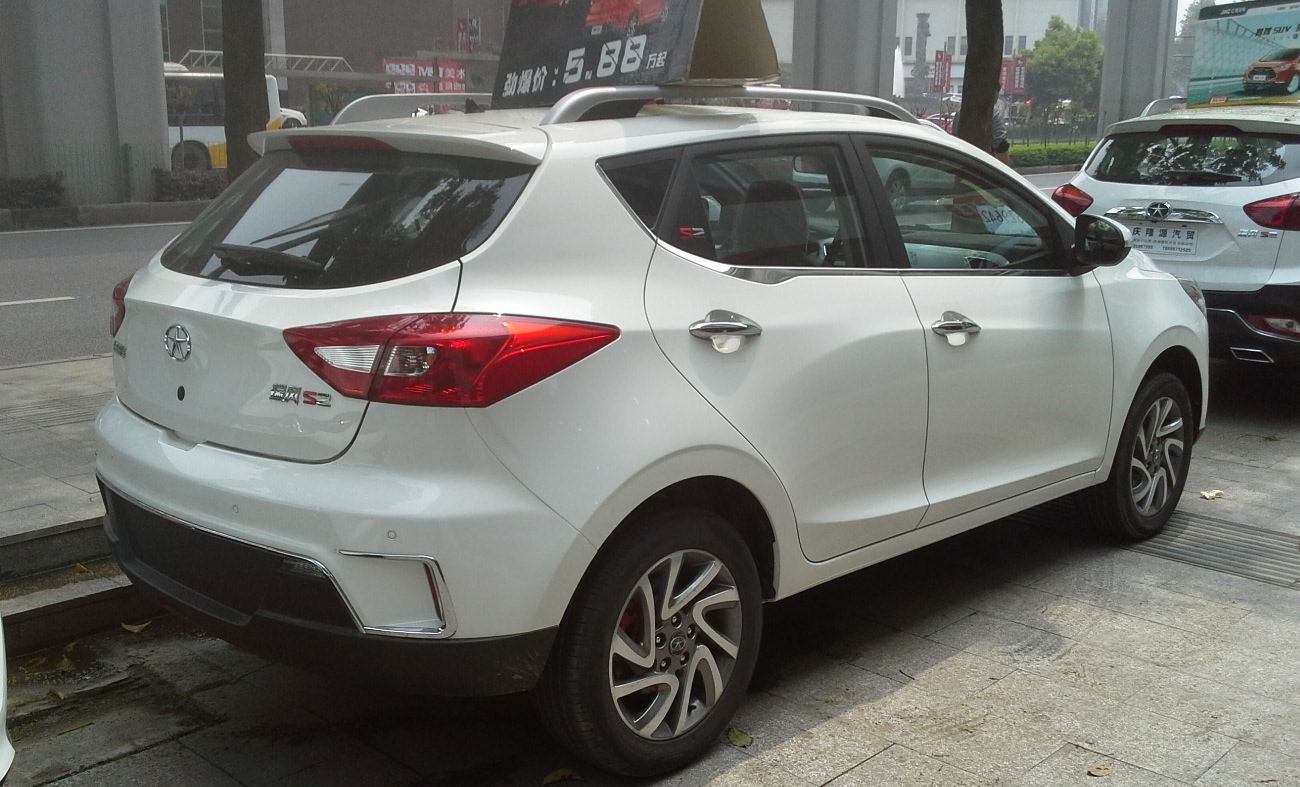 JAC Refine S2 photographed in Chongqing, China.